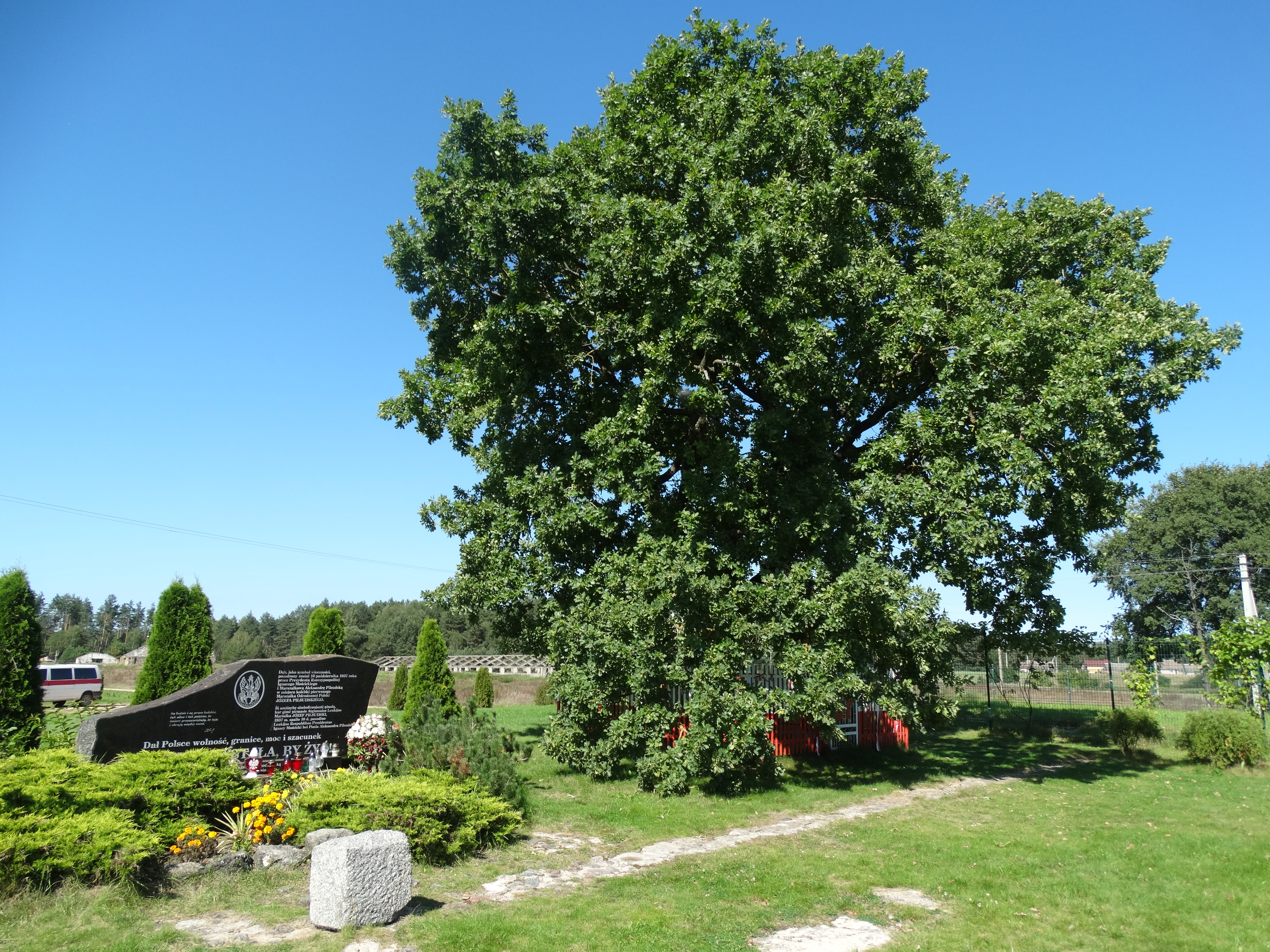 Former manor in Zalavas (Zułowo), Švenčionys District, Lithuania